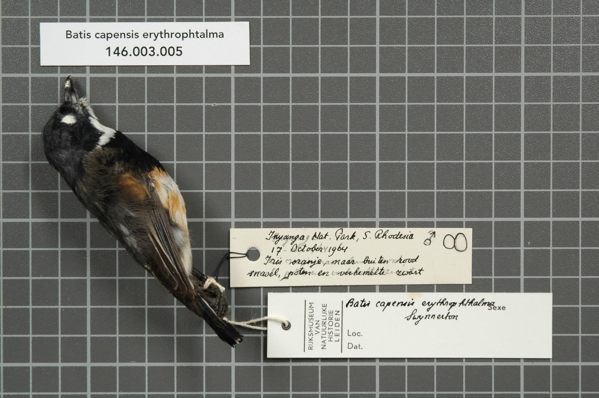 Batis capensis erythrophtalma Swynnerton, 1907